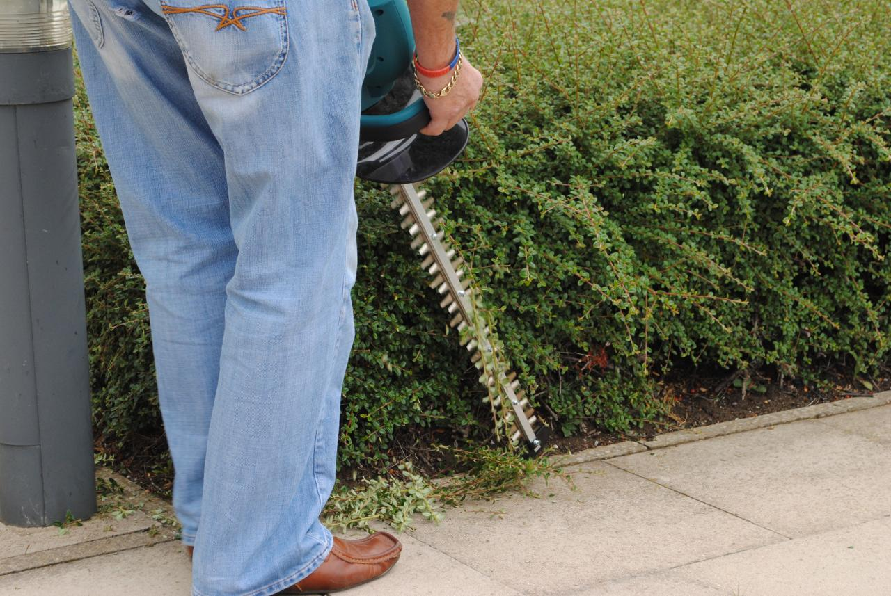 A cordless electric hedge trimmer (Makita BUH550RD 36V)